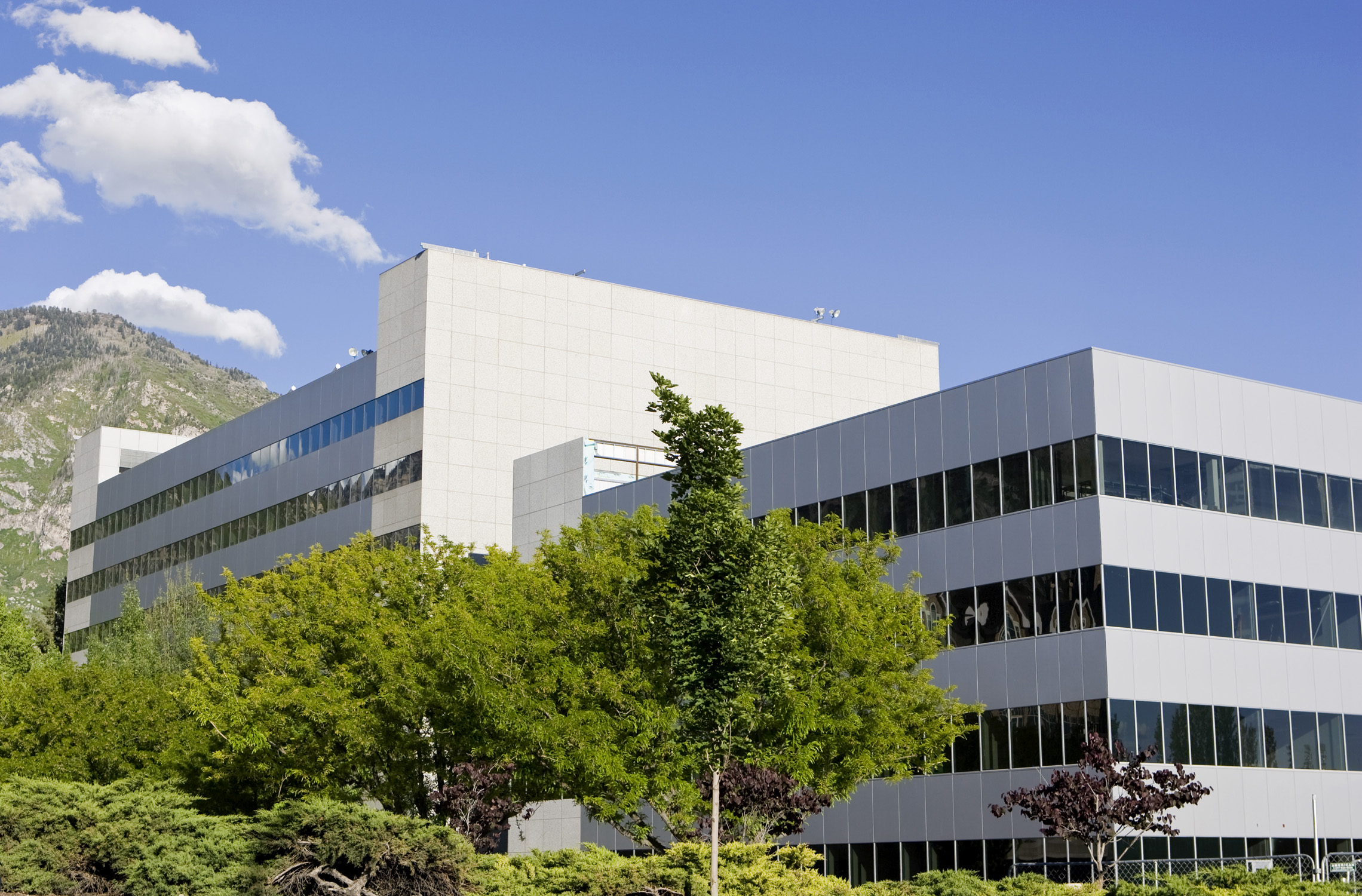 N. Eldon Tanner Building (with addition) at Brigham Young University.